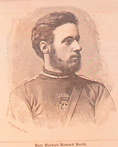 Herbert Howard Booth, Pictured in Stridsropet (The swedish version of War Cry (Salvation Army newspaper)) number 6, saturday february 6, 1886.